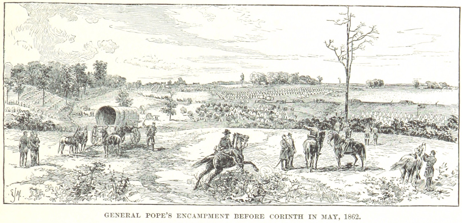 The encampment of John Pope at the Siege of Corinth